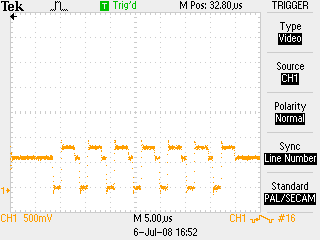 The Macrovision pulses located on some of the otherwise unused lines of the video signal. Here the pulses are small causing a VCR auto contrast circuit to lighten the picture.